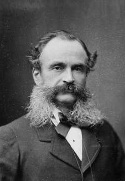 This image shows a photograph of William Jervois, taken ca. 1880. Under Australian law, all photographs taken in Australia before 1955 are in the public domain. This image is in the public domain under both Australian copyright law and US copyright law. Accessed from